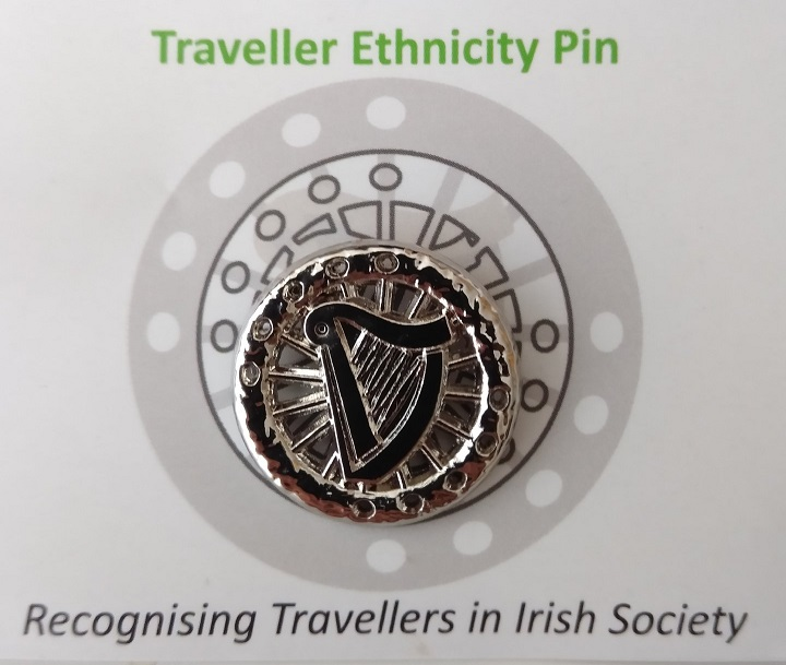 There are Symbolic Implications of the pin. Pride, respect and inclusion are fundamental to the formal recognition of Traveller ethnicity.